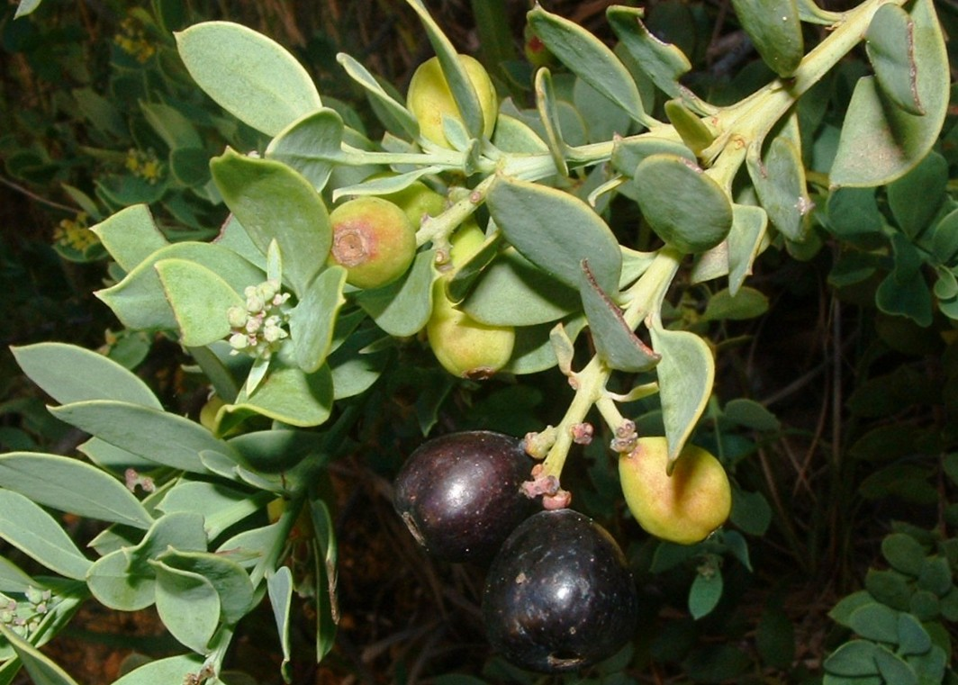 Osyris compressa bush berries. South Africa.